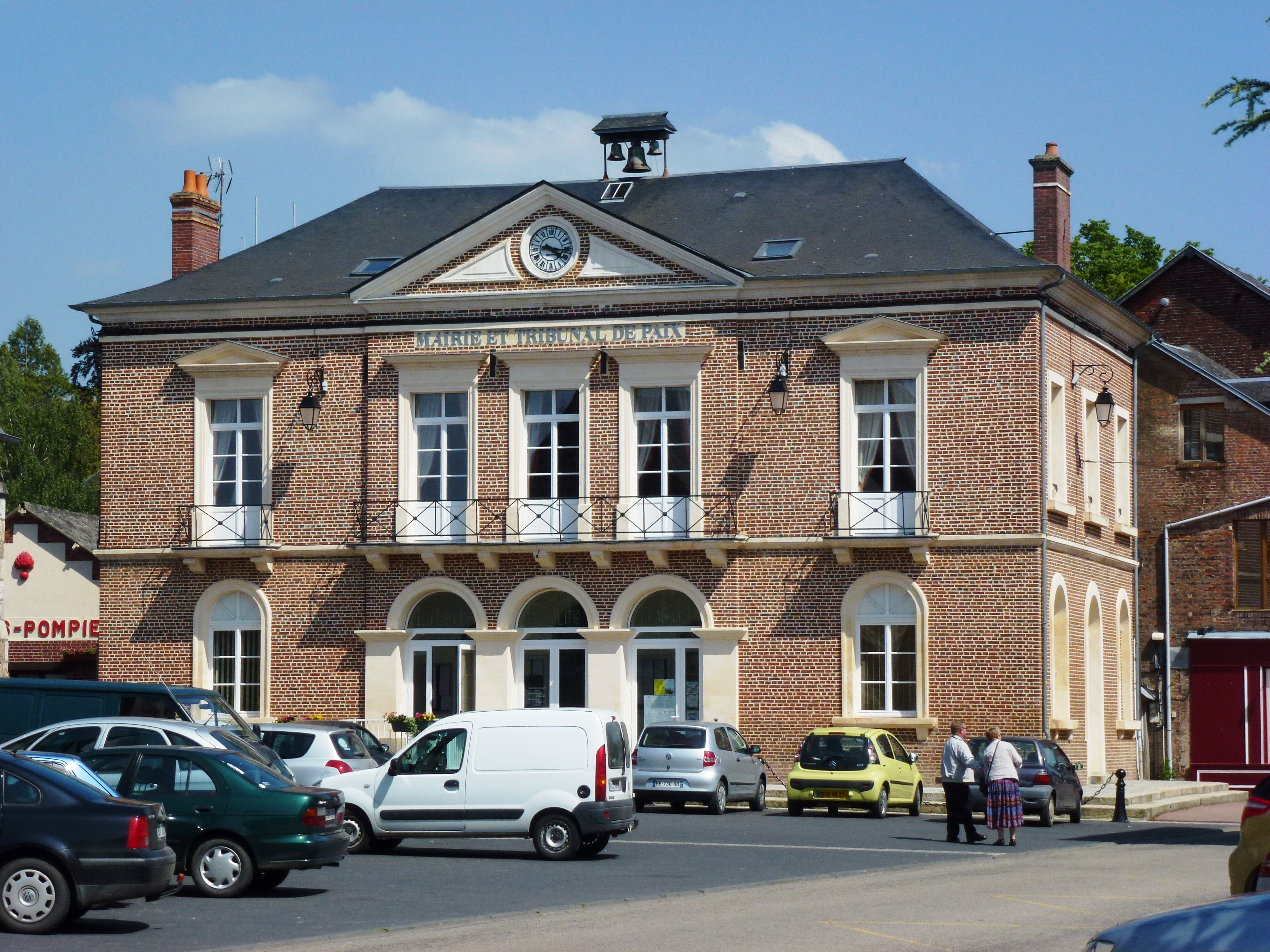 Thiberville (Eure, Fr) mairie et tribunal de Paix